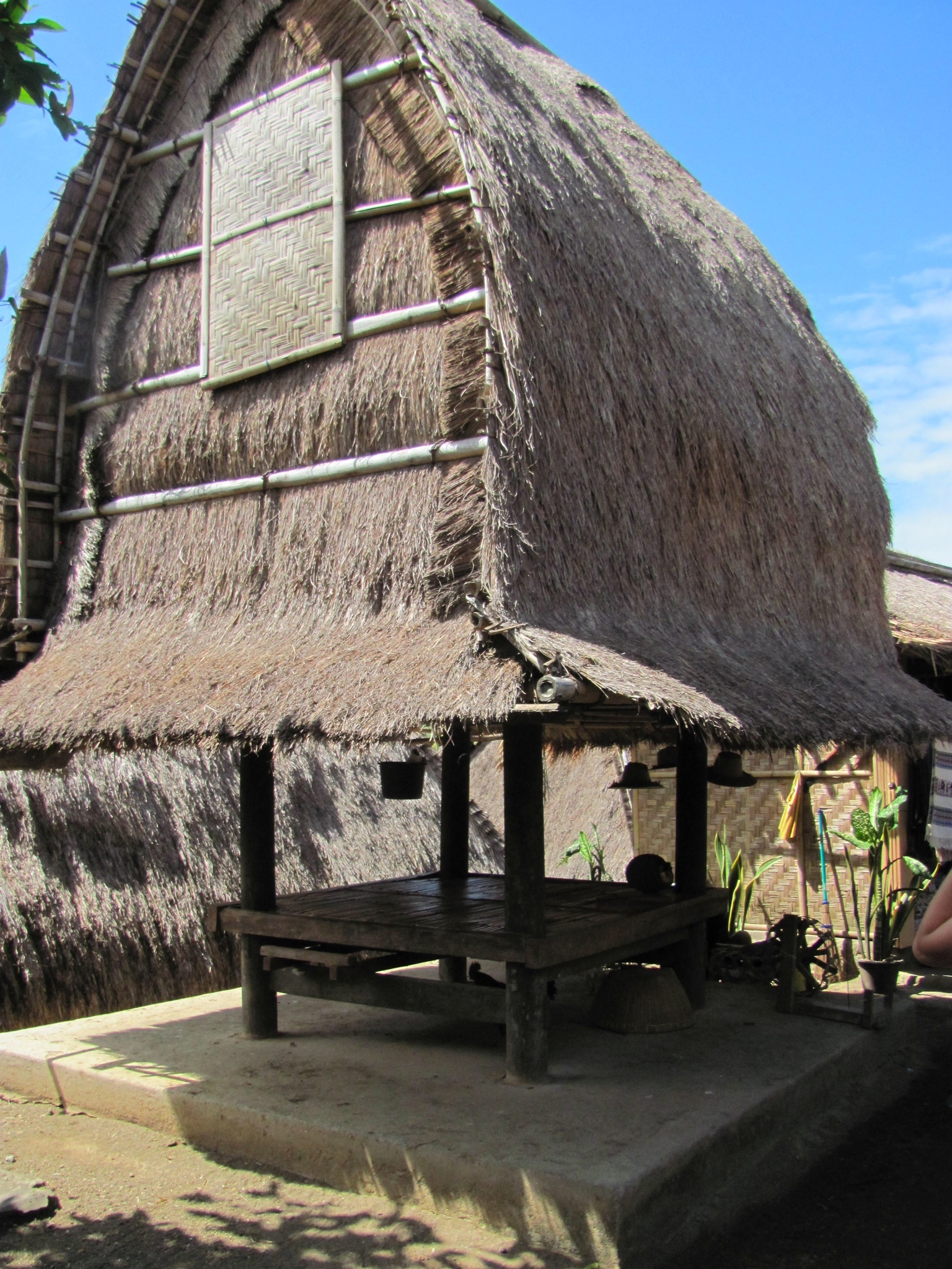 Sasakhouse in Lombok